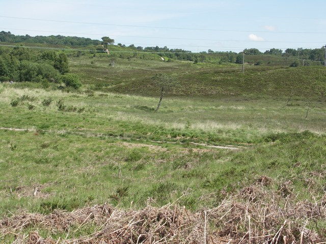 Upton Heath Nature Reserve The heath fills the whole of this square, and covers a total of 205 ha. Half of that total is managed by the Dorset Wildlife Trust. See more details at